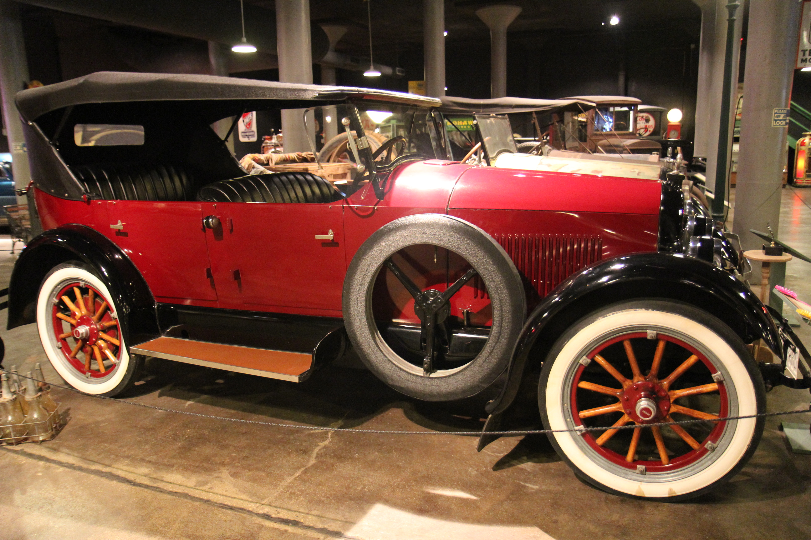 1923 Kissel 6-55 on display at the Wisconsin Automobile Museum.